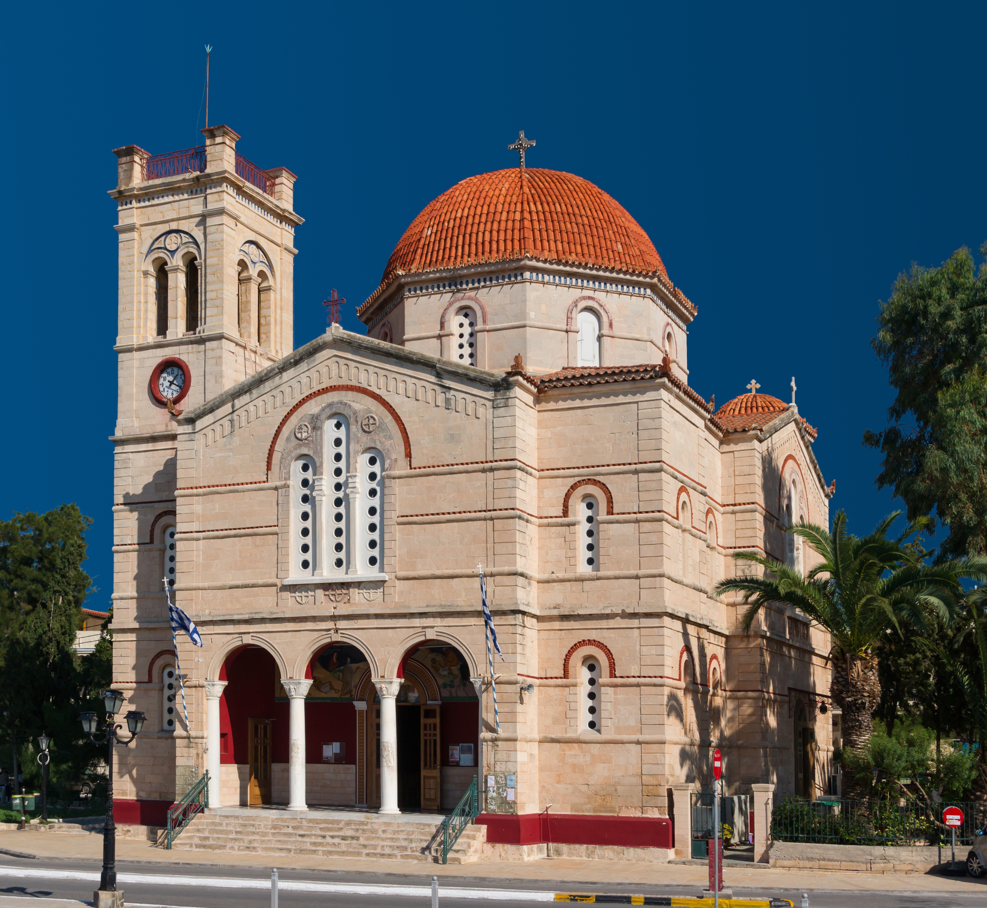 Panagitsa church, Aegina, Greece